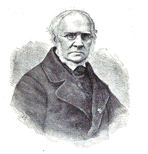 Drawing of Karl Ludwig Hencke (1793-1866), German amateur astronomer. Appears in January 1891 issue of The Sidereal Messenger, from Himmel und Erde.